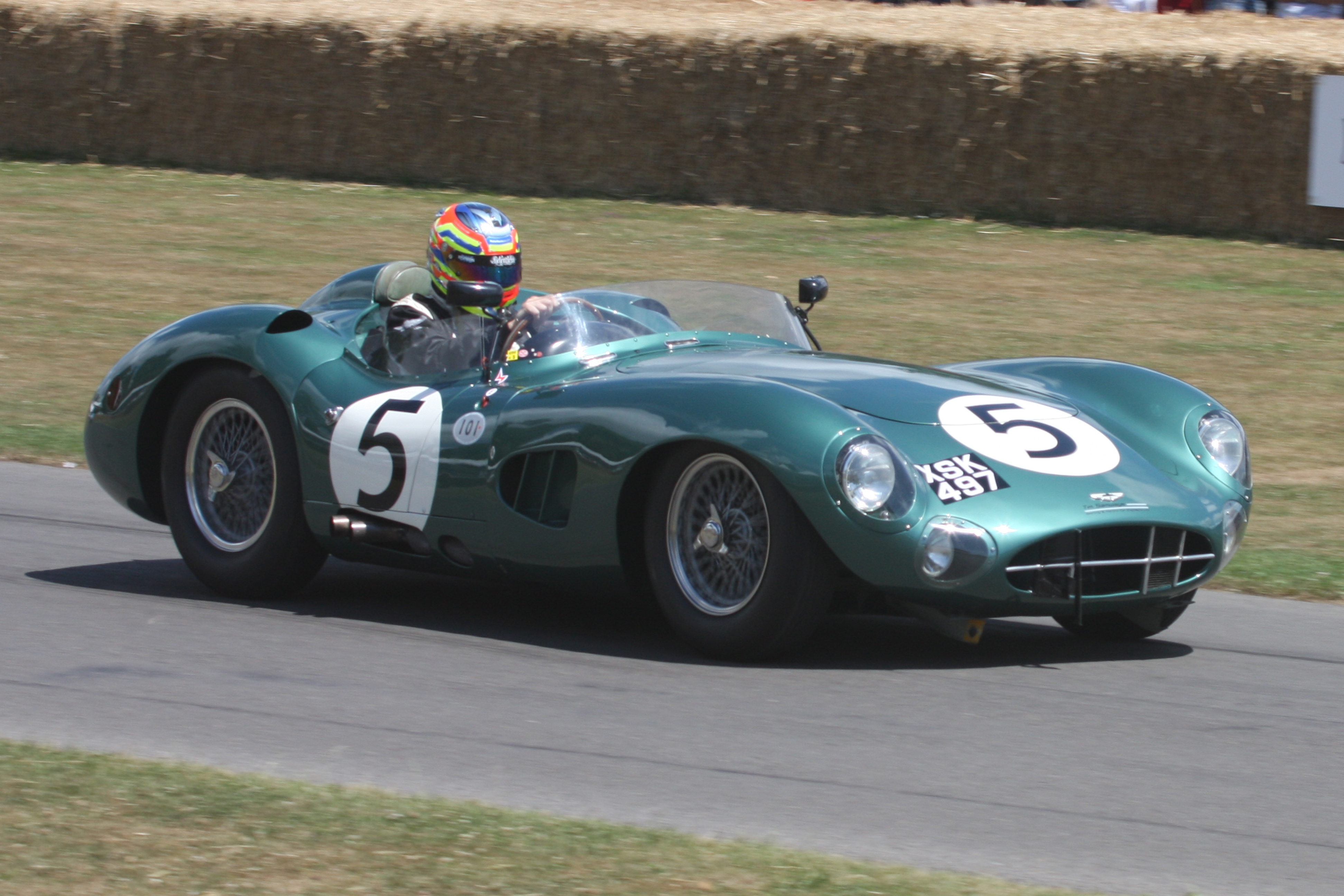 1957 Aston Martin DBR1/2 at Goodwood Festival of Speed on 3–5 July 2009. Entry #5 driven by Peter Hardman.